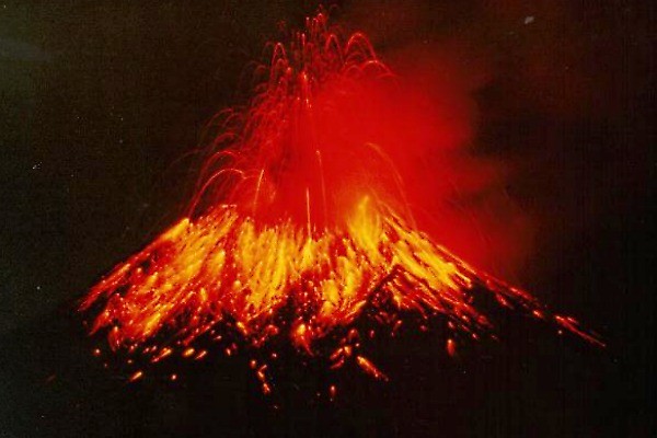 Strombolian-style eruption of Tungurahua Volcano, Ecuador